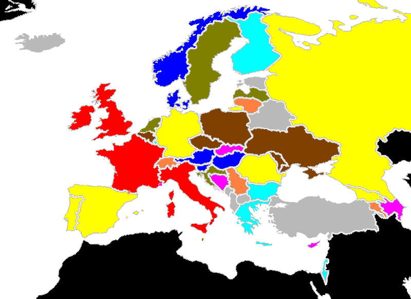 Blank map of Europe, coloured according to divisions in for European Nations' Cup 2008/10